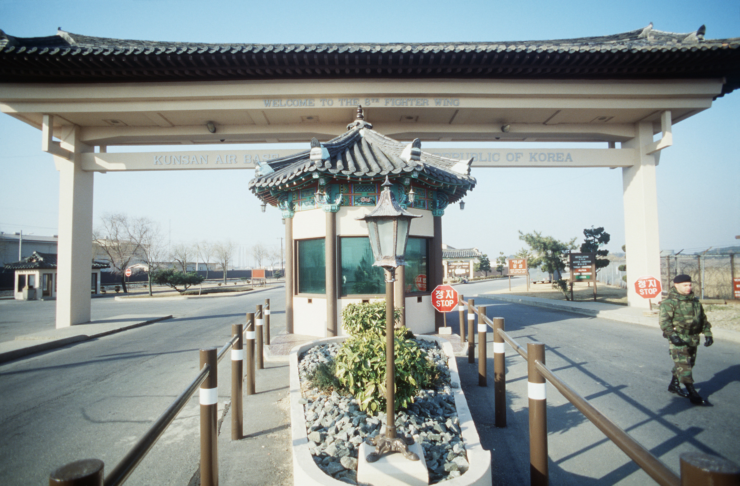 The original finding aid described this photograph as: Base: Kunsan Air Base Country: Republic Of Korea (KOR) Scene Camera Operator: Unknown Release Status: Released to Public